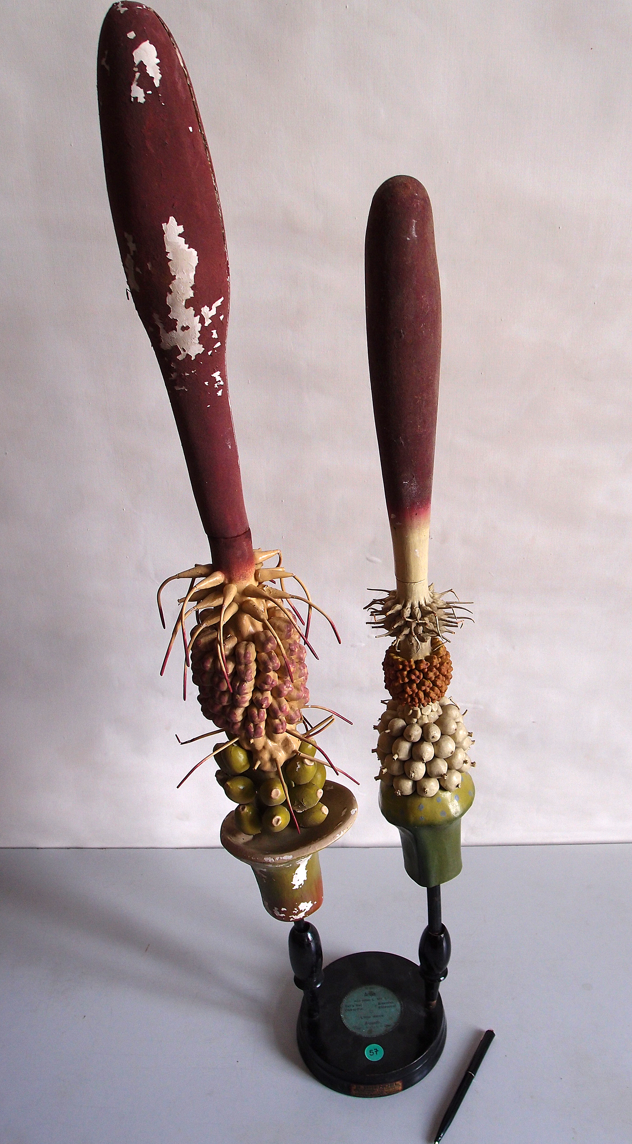 Model from the collection of the Botanical Museum in Greifswald, Germany. . see also for more information on the models